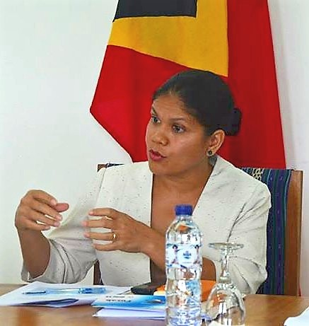 Isabel da Costa Ferreira, First lady of Timor-Leste